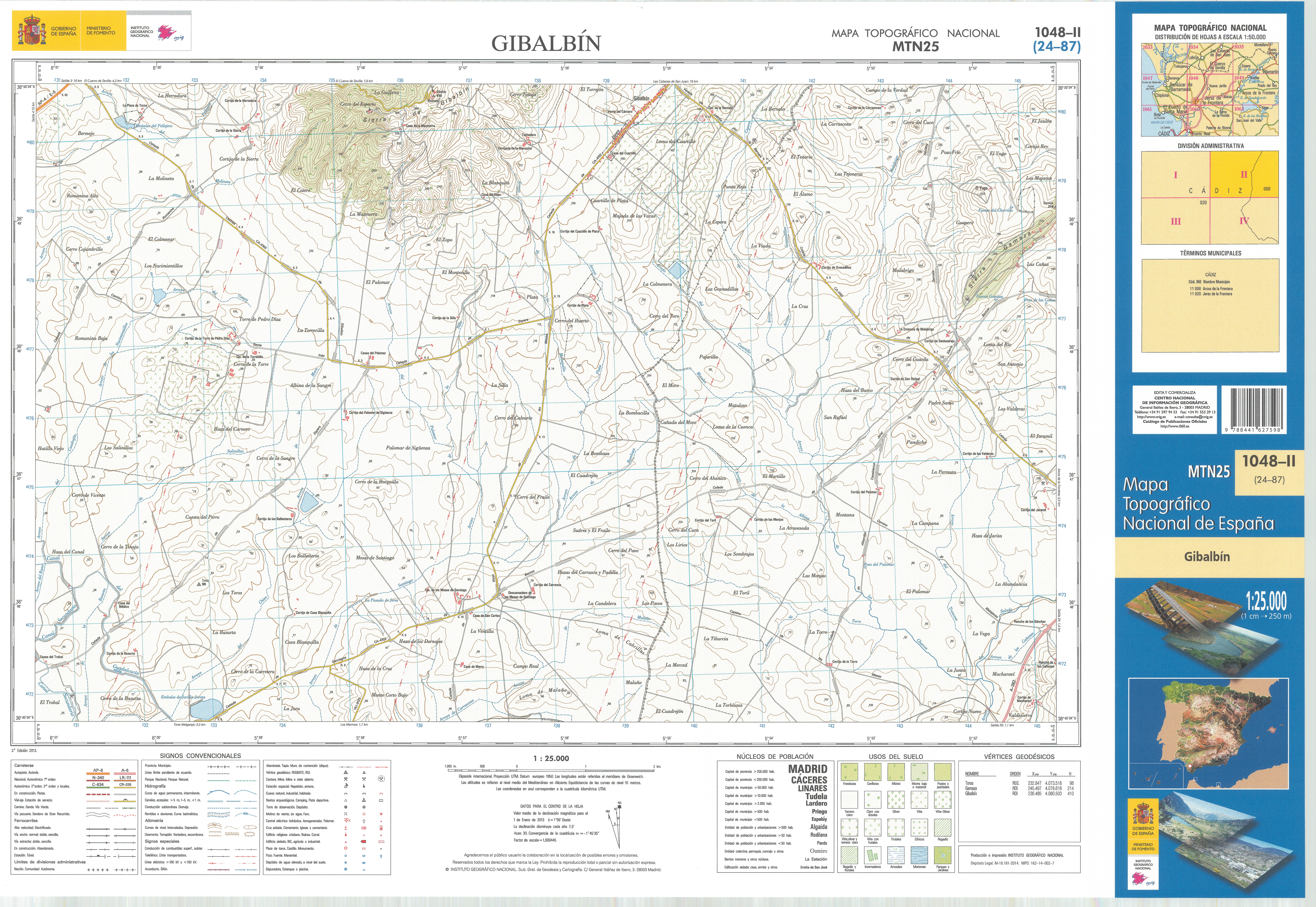 Fragment 1048c2 of the National Topographic Map of Spain in 2013 at a scale of 1:25000 printed and scanned with a resolution of 250 ppi. It shows Gibalbin.